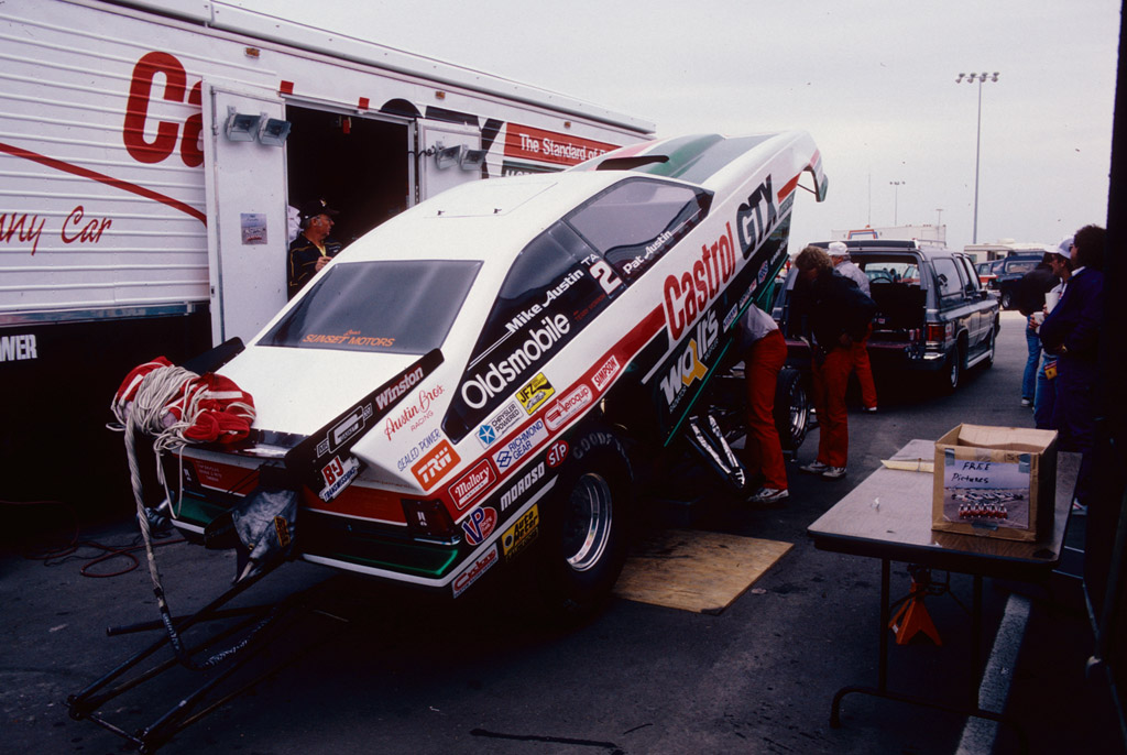 Pat Austin at the 1987 NHRA Winston All-Stars, Texas Motorplex1987 NHRA Winston All-Stars, Texas Motorplex